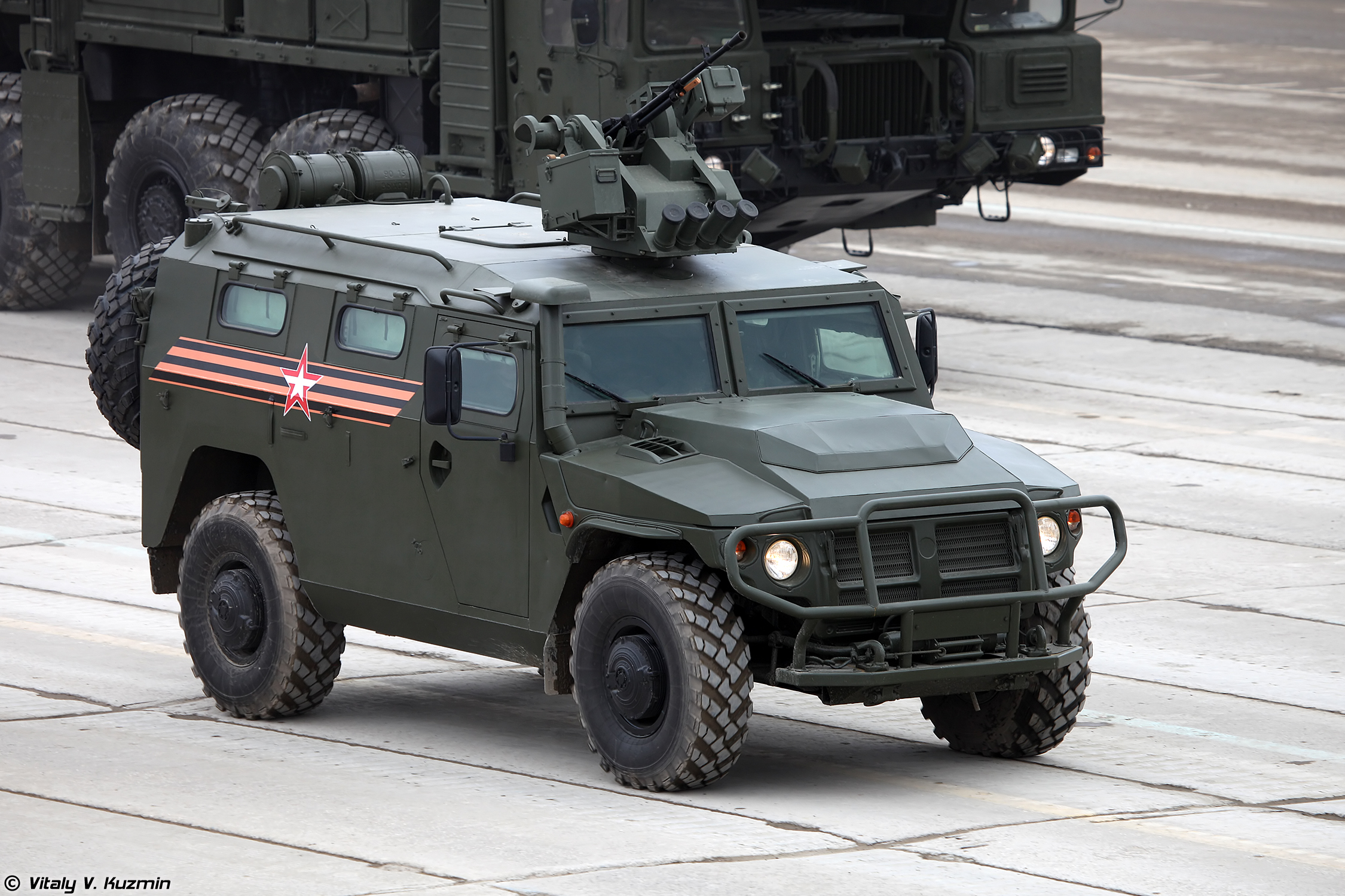 AMN 233114 Tigr-M with remote controlled turret Arbalet-DM